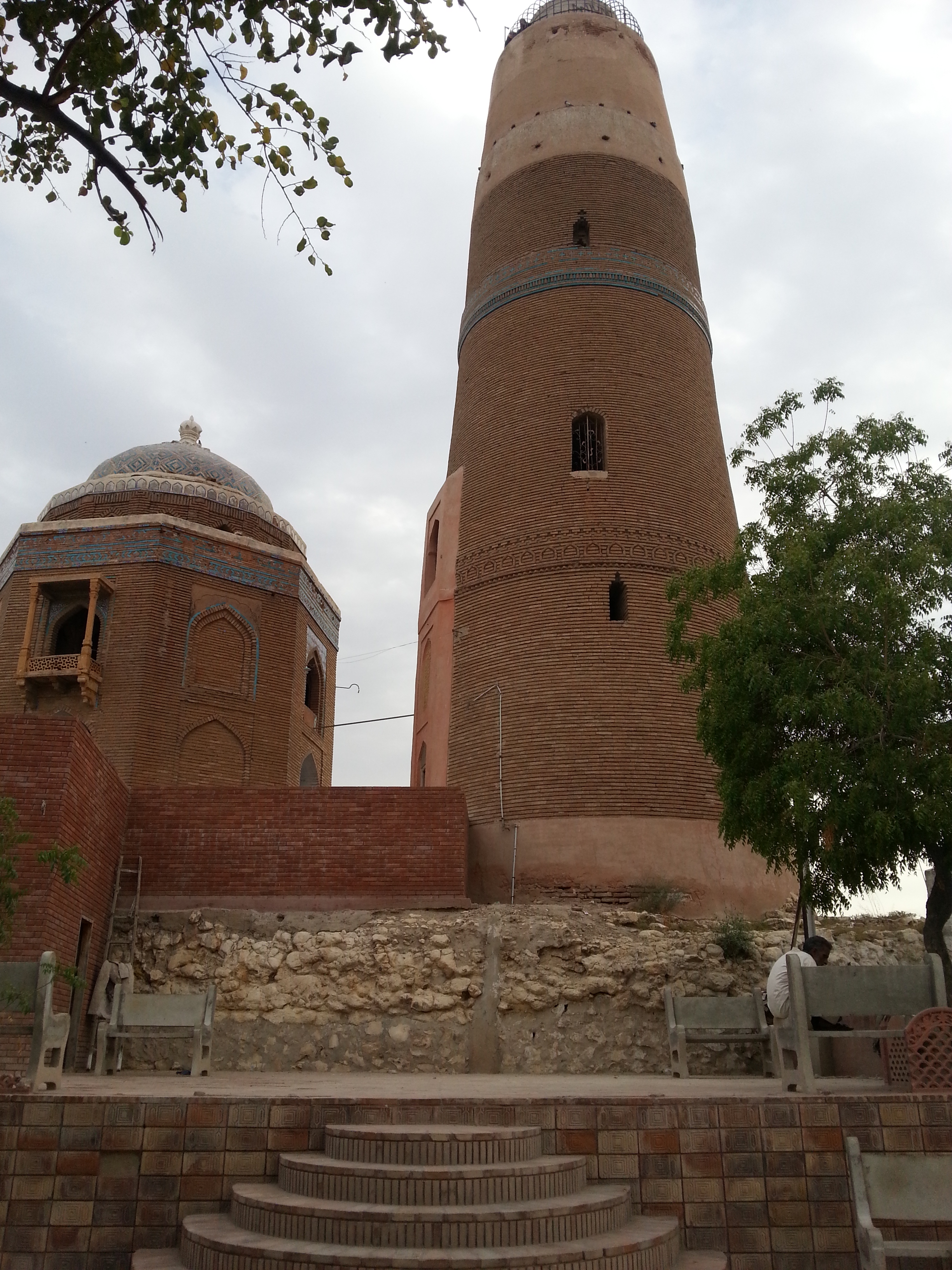 Minaret of Masum Shah in Sukkur, Sindh, Pakistan